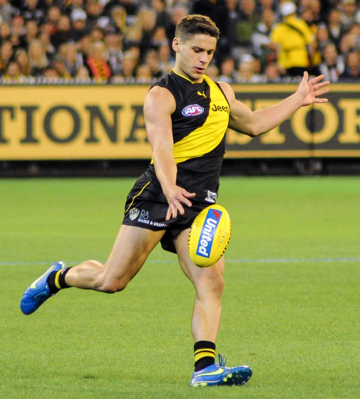 Dion Prestia kicking during the AFL round two match between Richmond and Collingwood on 30 March 2017 at the Melbourne Cricket Ground in Melbourne, Victoria.